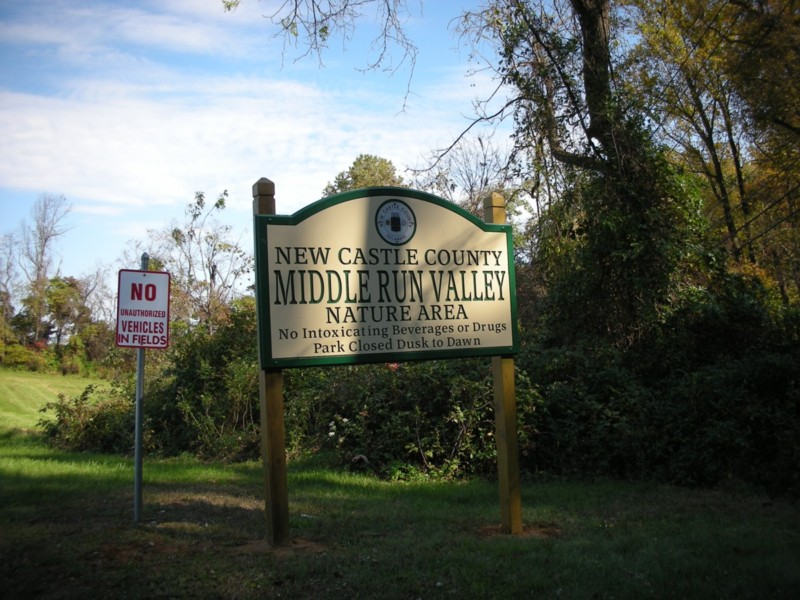 Sign at the main entrance to Middle Run Valley Nature Area, right off of Possom Hollow Rd., New Castle County, Delaware (east of downtown Newark).